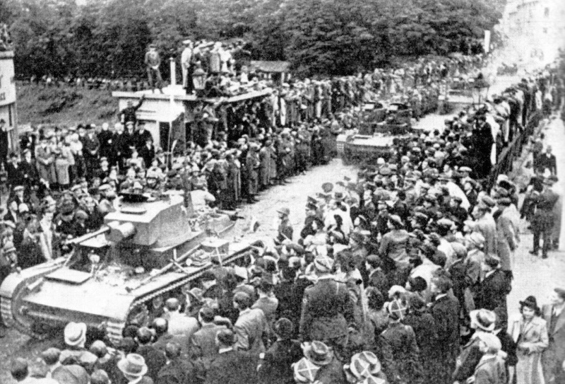 The Polish Army entering Český Těšín